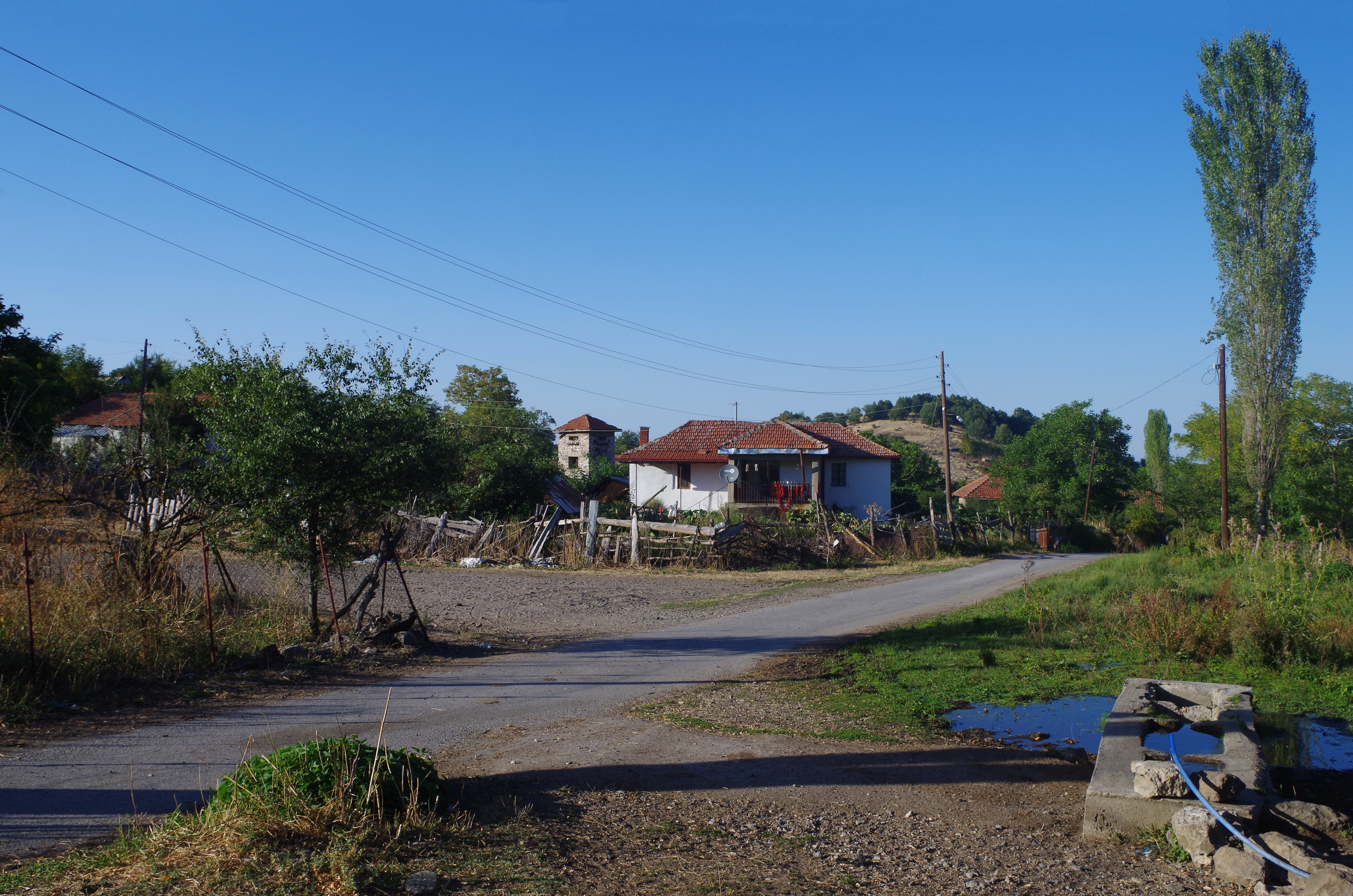 Houses in the village of Bojančište